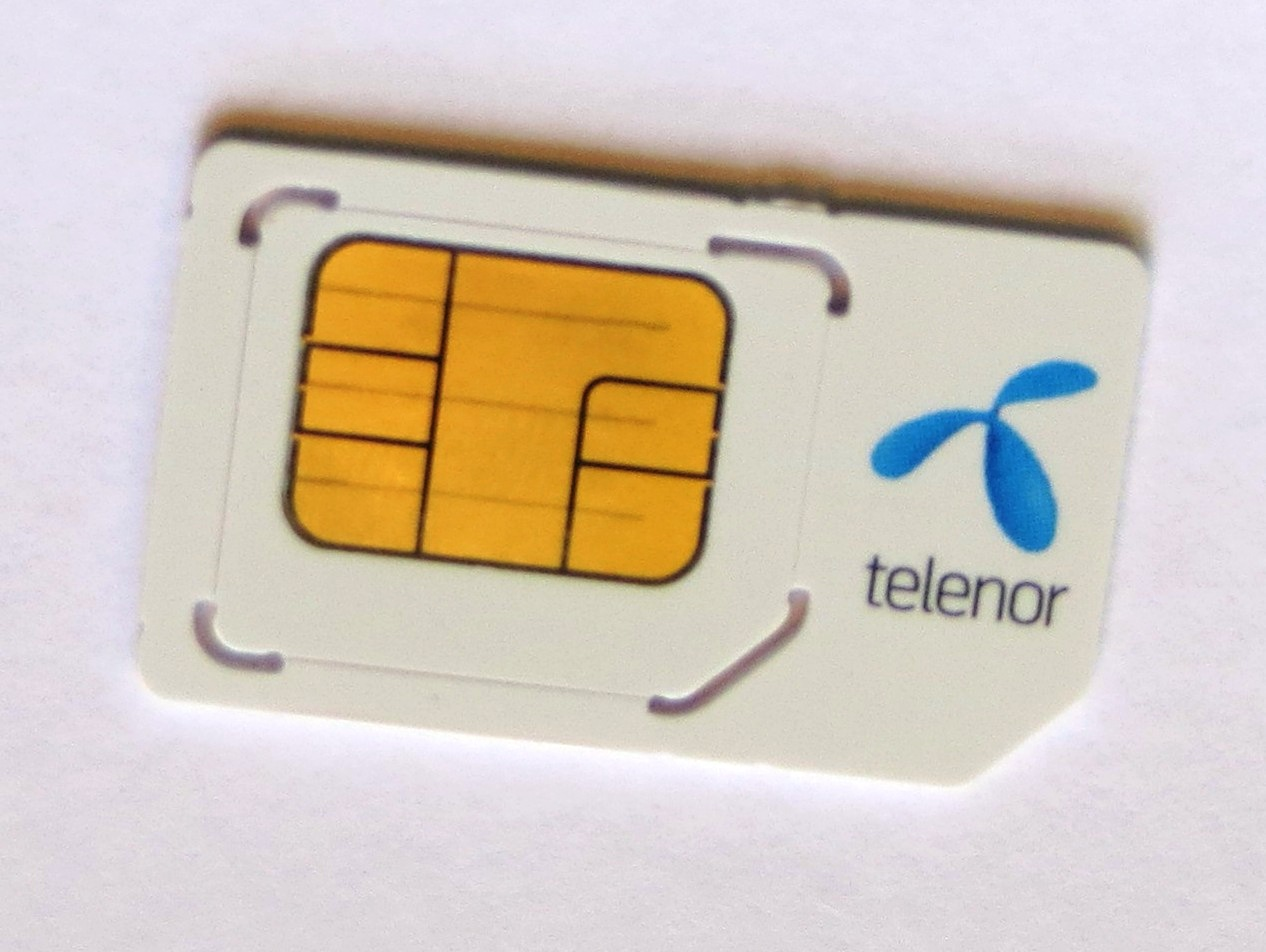 Image of 2013 Version of 2G / 3G SIM card, issued in Norway by Telenor. This card has optional mini-SIM feature, the mini SIM card can be produced by tearing out the Central chip piece inside the perforated holes.